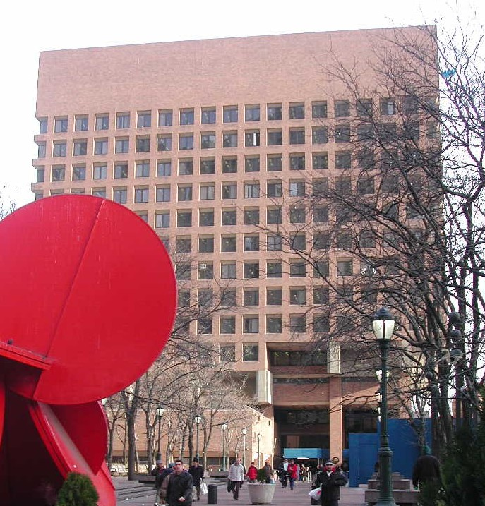 NYPD HQ